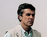 John Stapleton in Iraq, 2003